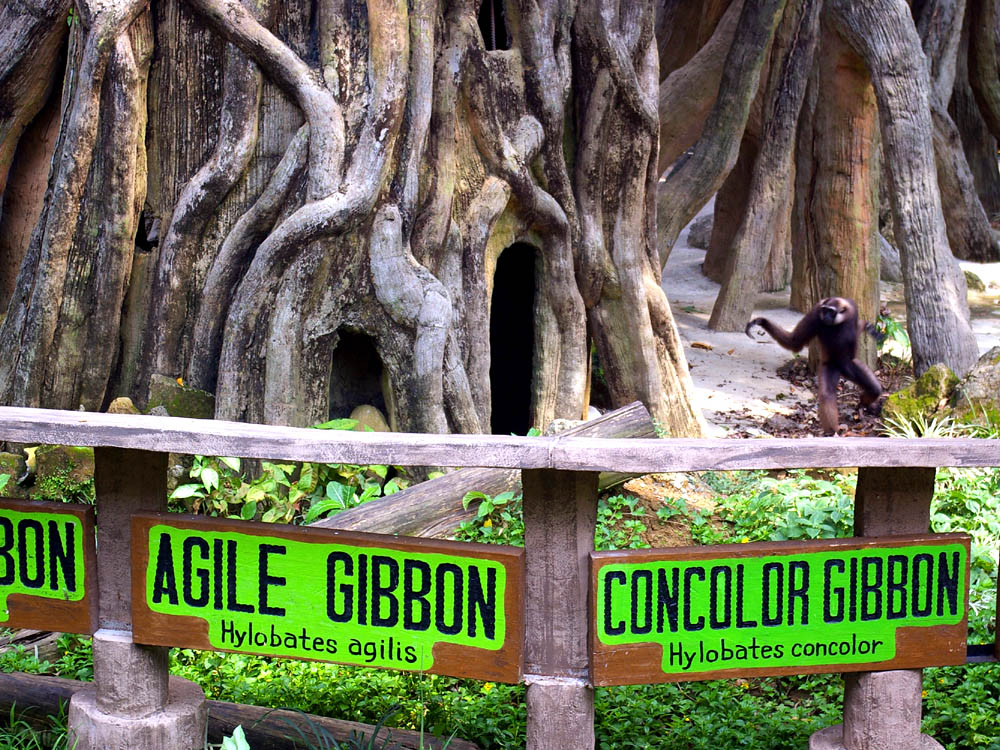 The Avilon Montalban Zoological Park in Montalban, Rizal, Philippines